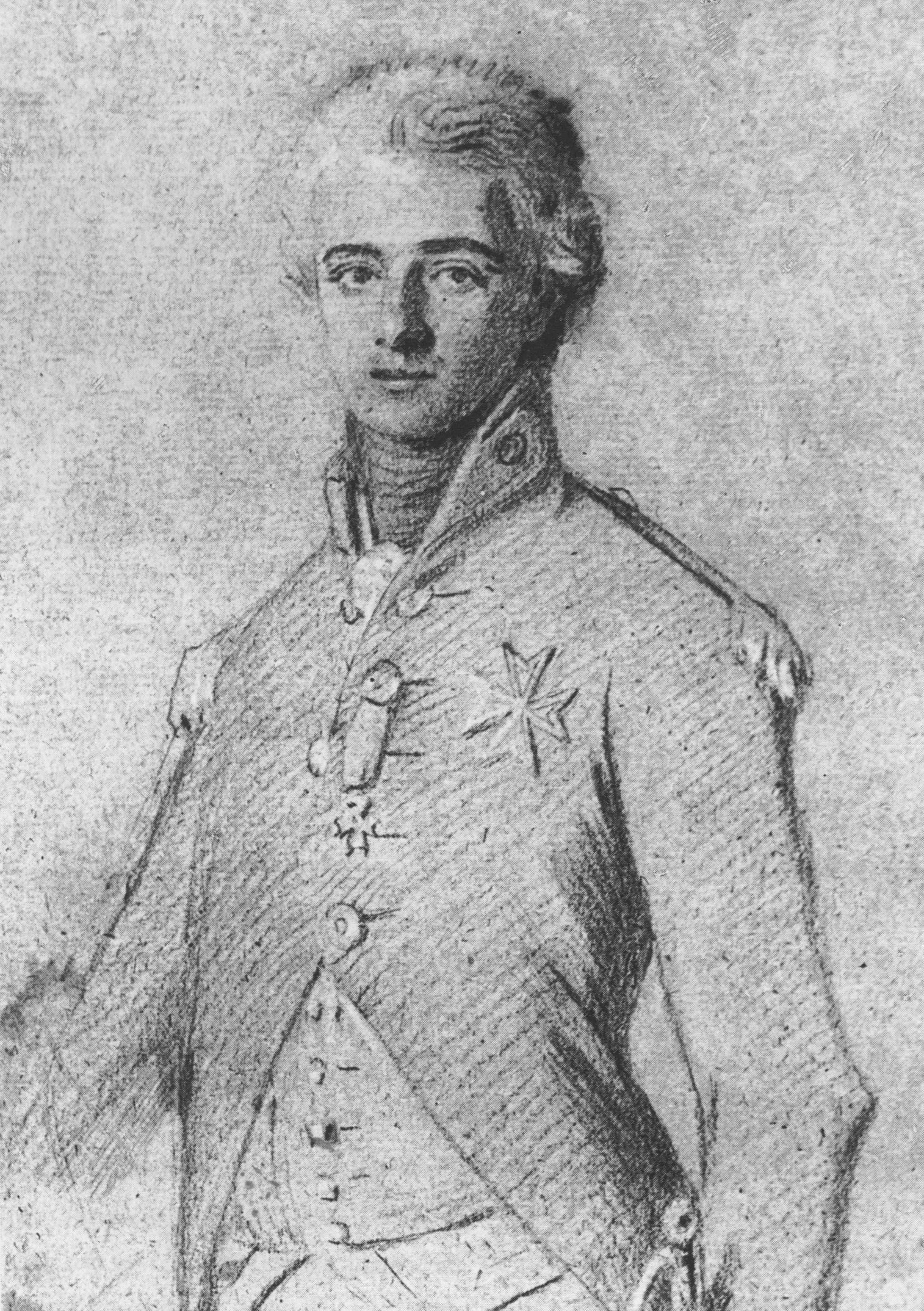 Camillo_Marcolini, around 1780